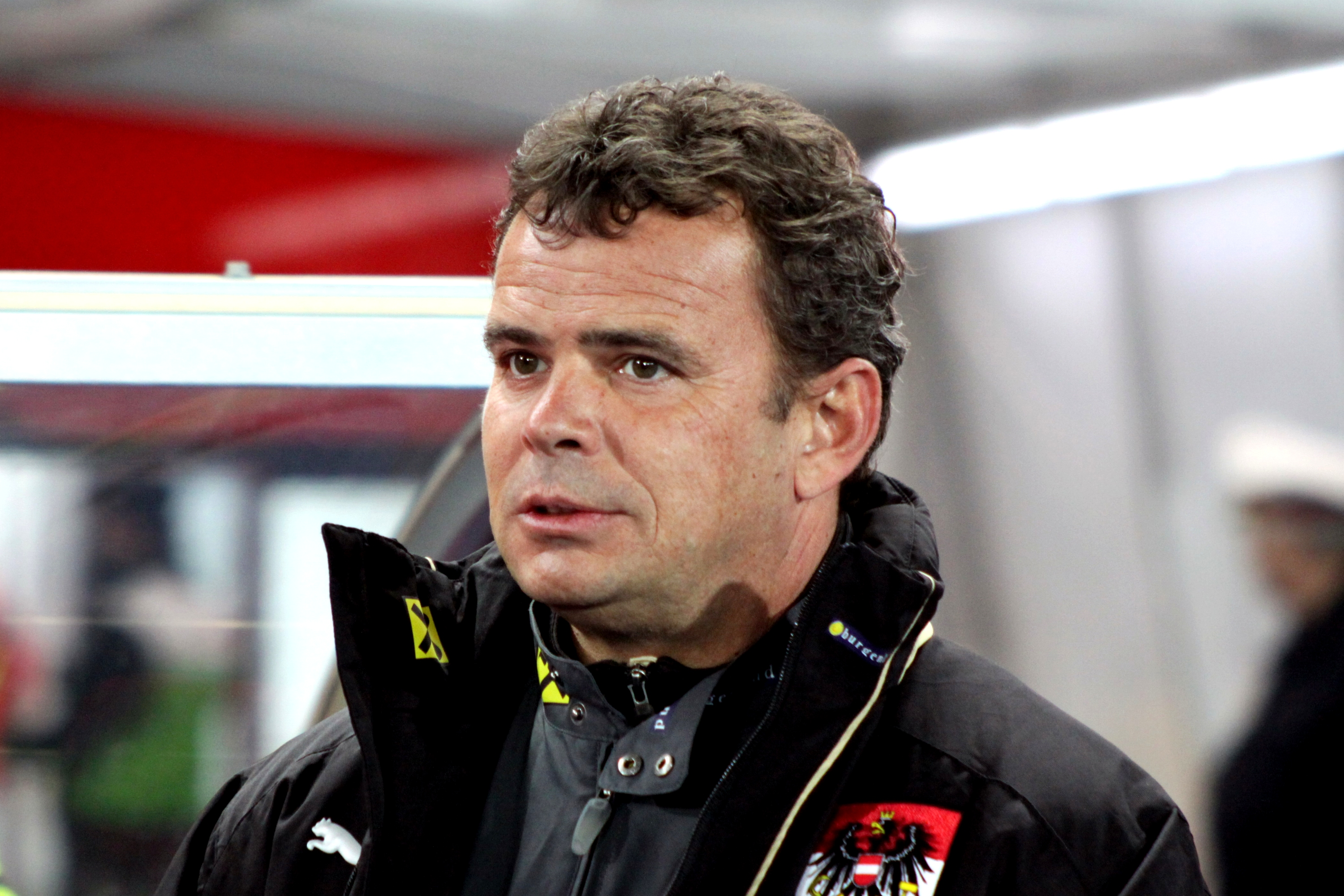 Manfred Zsak, Assistent-Coach of the Austria national football team